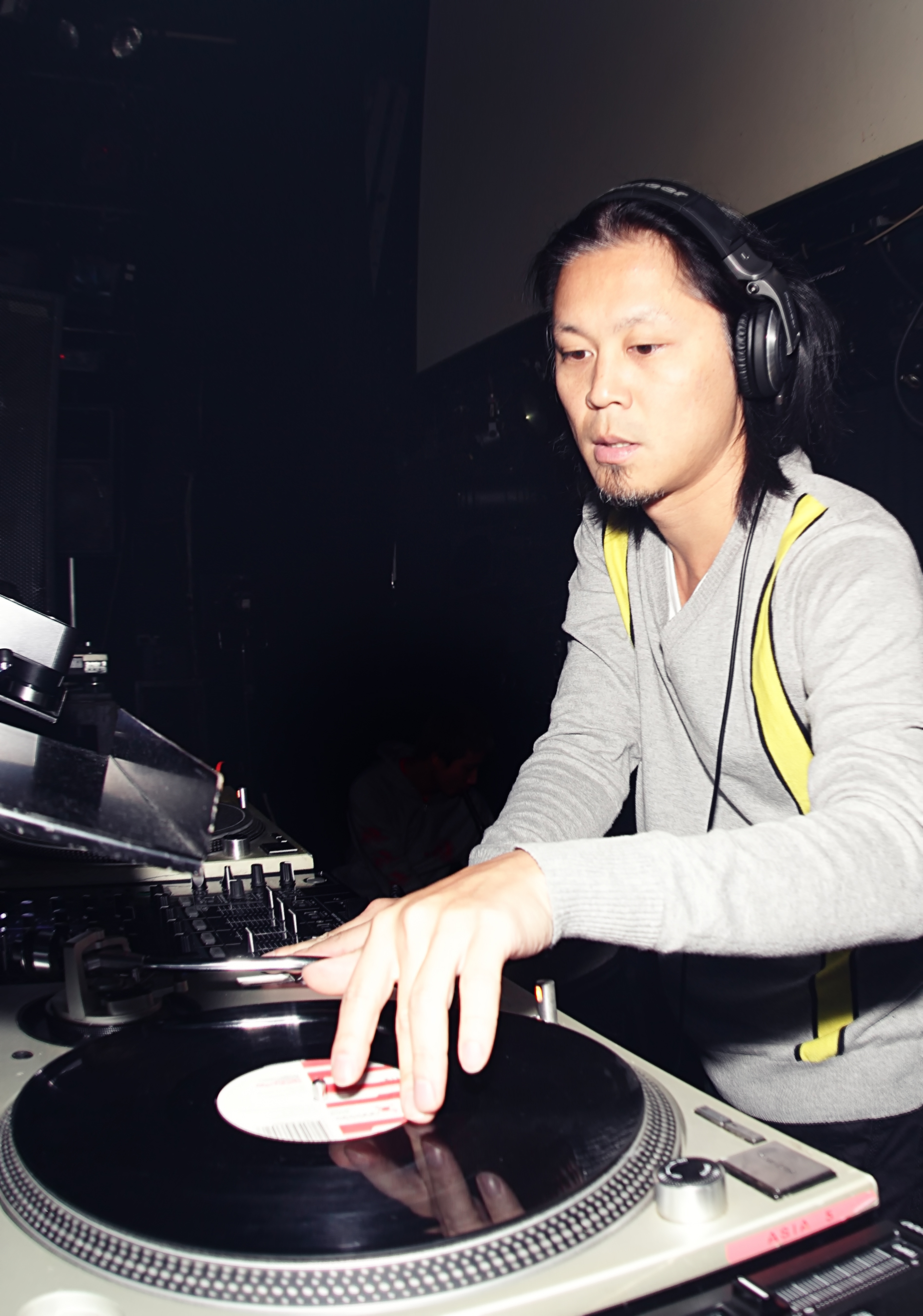 Ken Ishii at Clubasia 14th Anniversary.